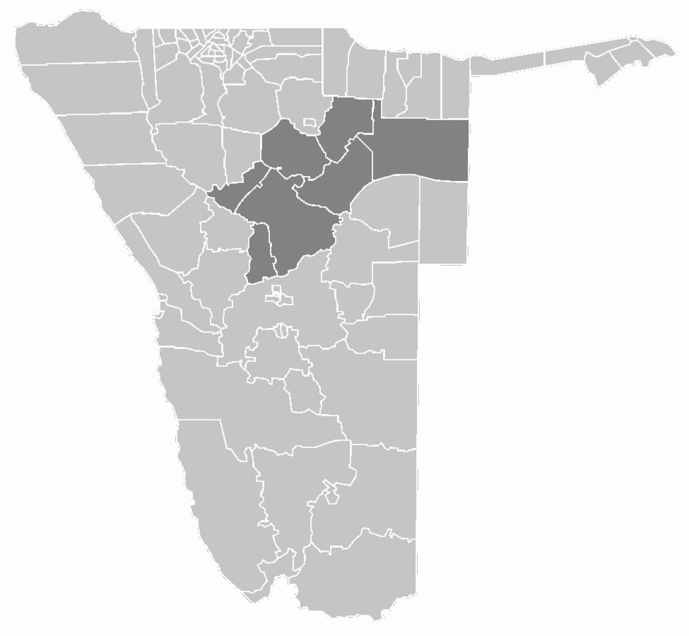 map of the Otjozondjupa region in Namibia